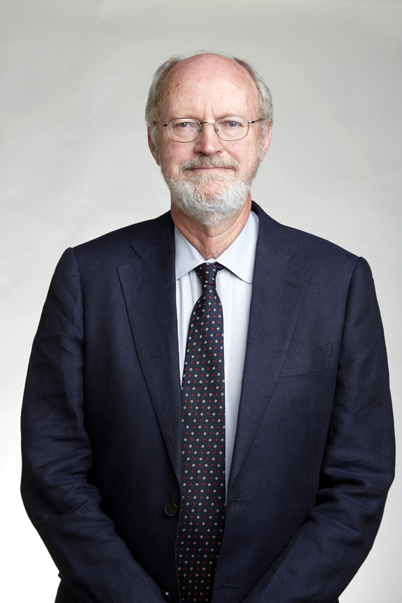 Robert Howard Grubbs is an American chemist and the Victor and Elizabeth Atkins Professor of Chemistry at the California Institute of Technology. He was a co-recipient of the 2005 Nobel Prize in Chemistry for his work on olefin metathesis. He is a co-founder of Materia, a University spin-off that produce catalysts Attribution: The Royal Society